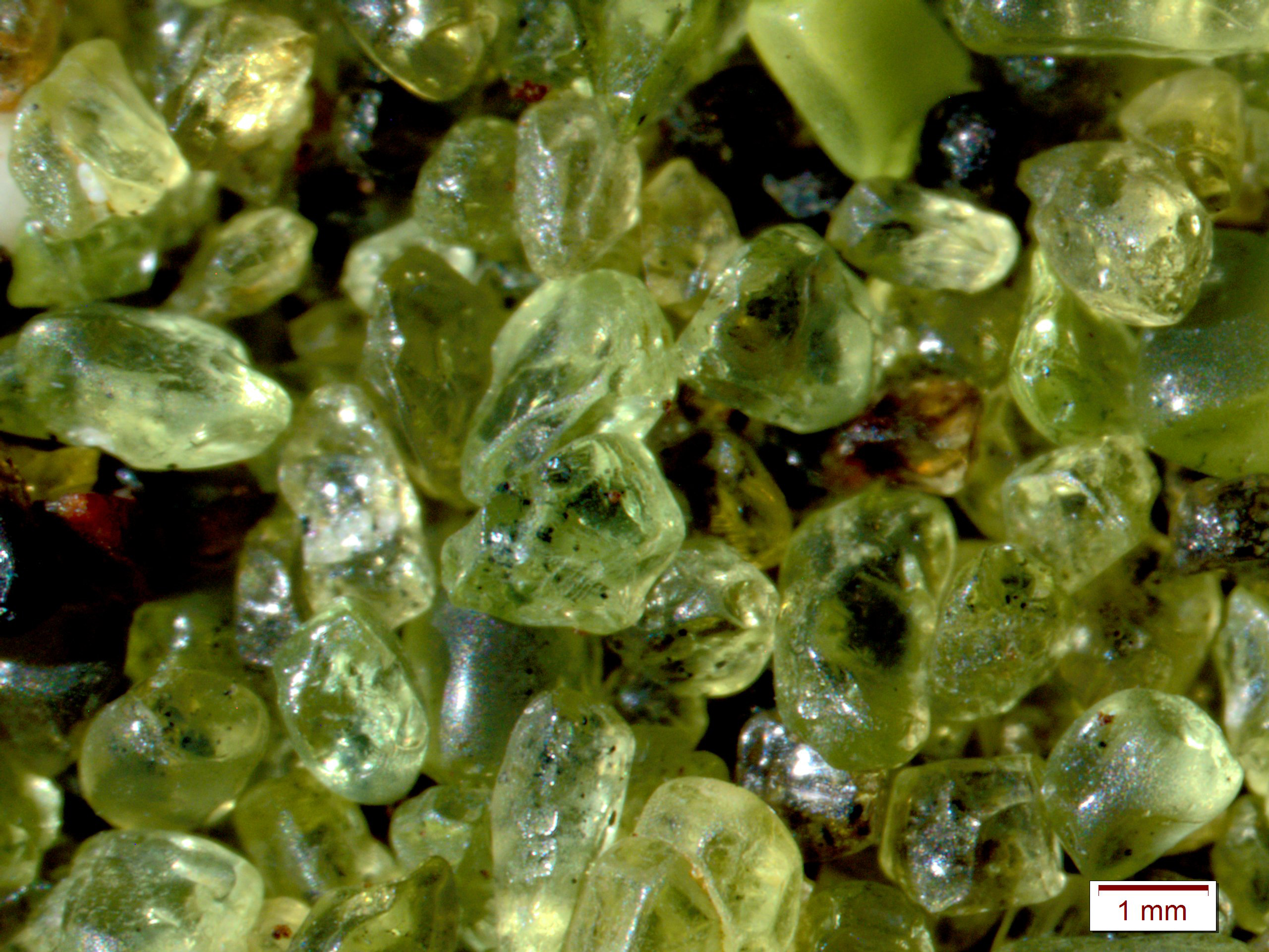 Papakōlea Beach sand near South Point, Kaʻū district, the island of Hawaiʻi. Sample from Lizzie Reinthal.